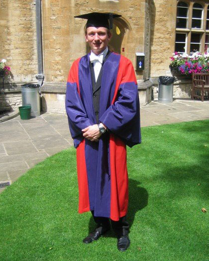 Oxford University DPhil graduand, wearing full academic dress for DPhil graduates: the scarlet and blue DPhil festal robe over sub-fusc dress, with square cap (colloquially referred to as the mortar-board). Photographed in the grounds of Lincoln College, Oxford.